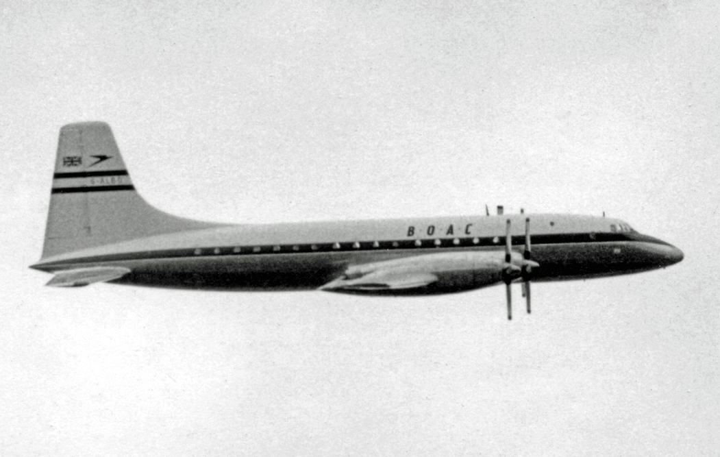 The Prototype Bristol Britannia 100 G-ALBO demonstrating at Farnborough in 1953 in BOAC markings